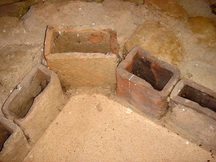 Villa Otrang, Germany: Roman ceramic box tiles which were built into the walls of buildings heated by a hypocaust to exahaust the burned gases and heat the walls.